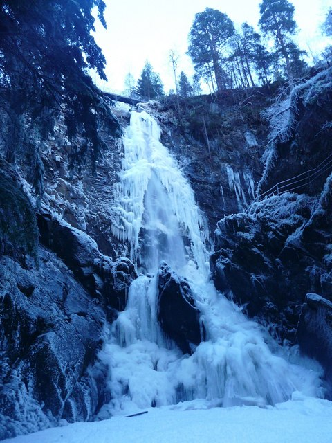 Narnia This could be a film set for The Chronicles of Narnia - in reality it is Plodda Falls completely frozen save for a trickle of water in the centre of the Falls. To get this shot I was standing on the frozen river beneath the falls. If you look carefully you might see the White Witch......